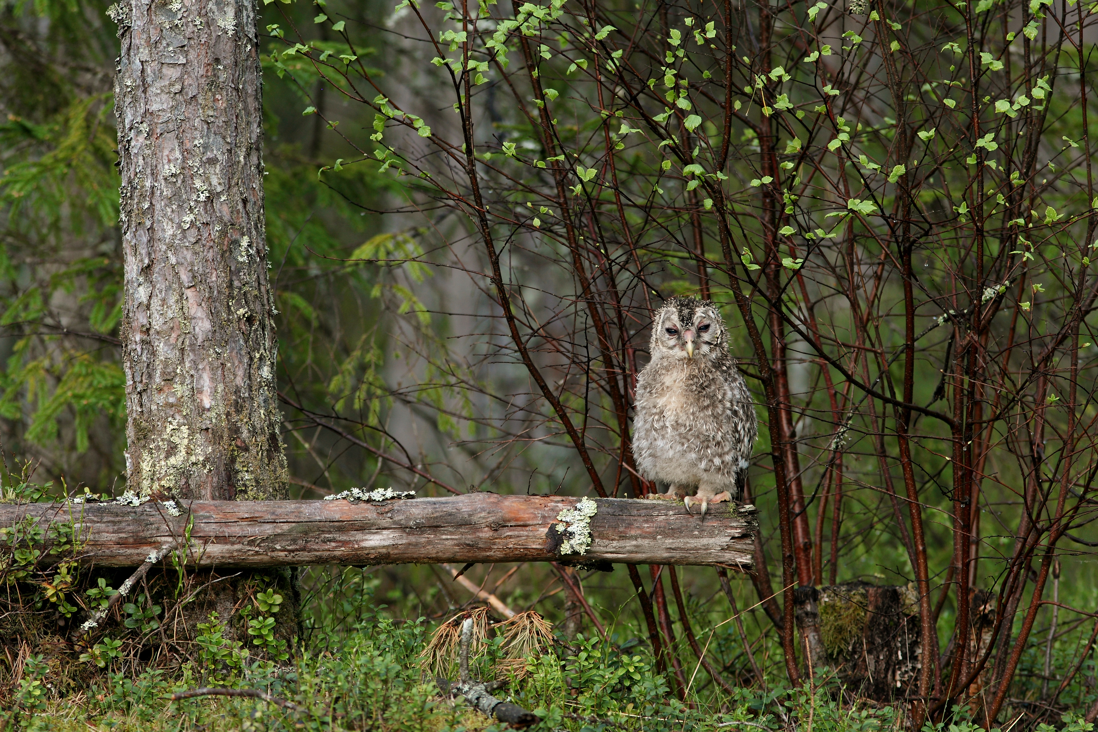 A young Ural owl who has just left the nest.